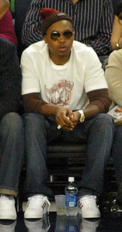 This file has been extracted from another file: S-Jax Nas.jpg